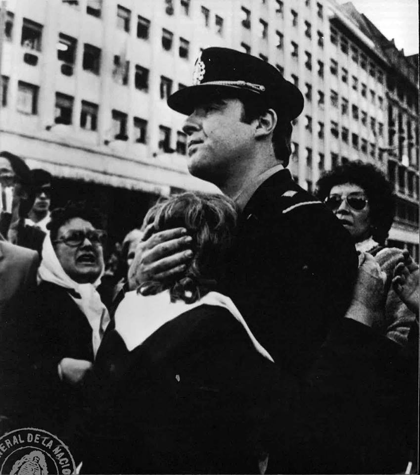 Deputy chief of Argentine Federal Police, Carlos Gallone, holding a Mother of the Plaza de Mayo during a protest at Plaza de Mayo, Buenos Aires. Policemen were there to repress the protest. The photo won the "Premio Rey de España", a photography award of Spain.